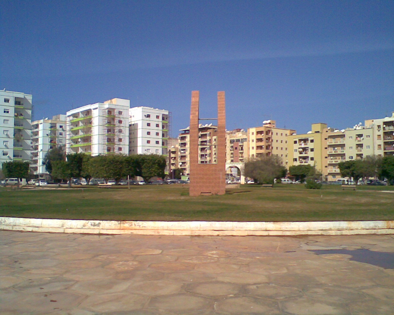 One of Benghazi's parks.